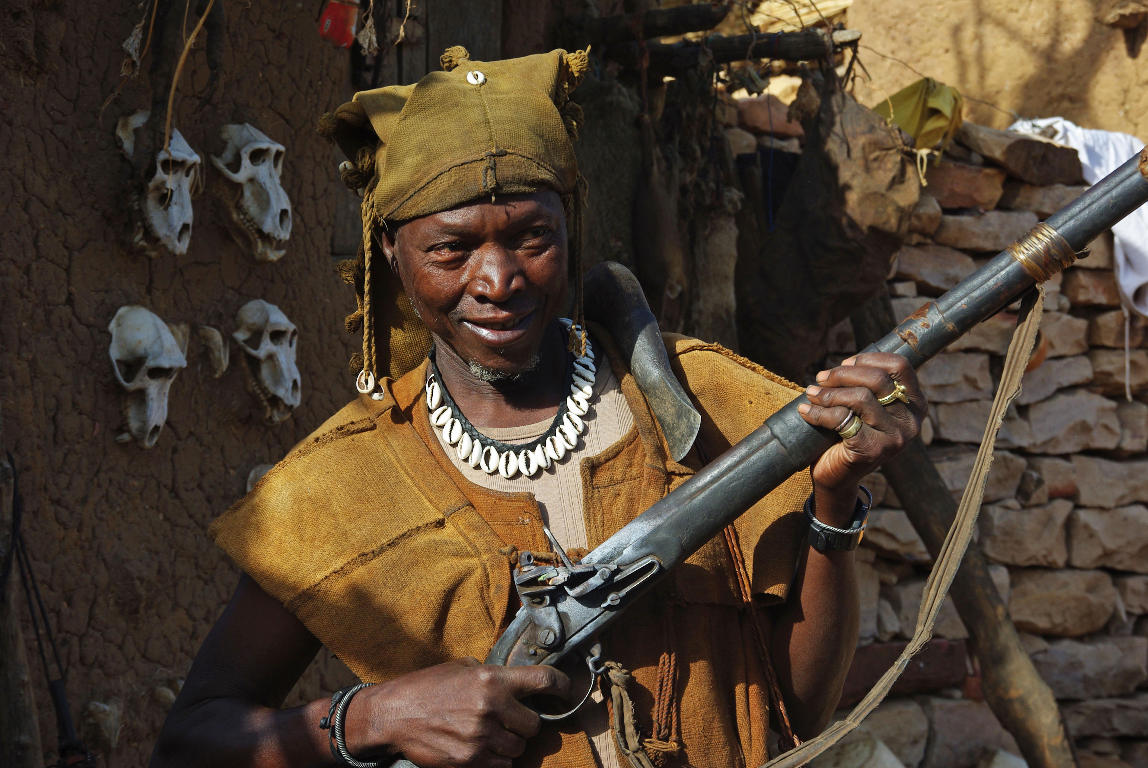 Hunter in Dogon region, Mali. Flintlock rifle.